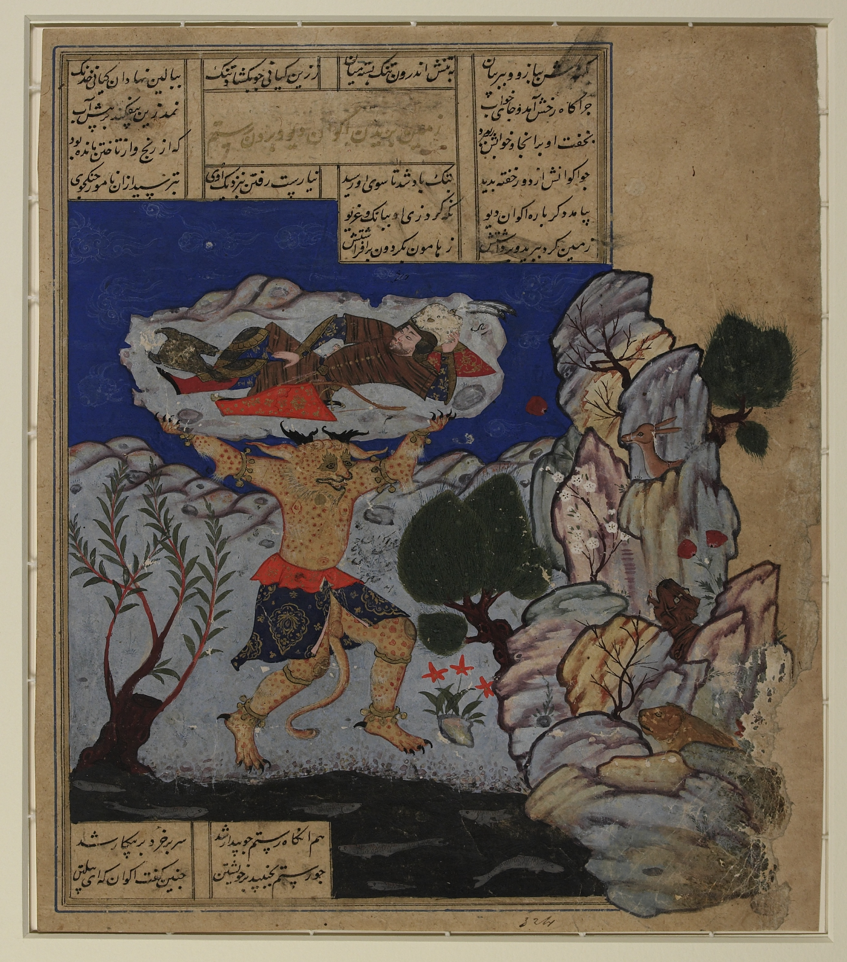 This painting represents an episode described in Firdawsi's "Shahnamah" (The Book of Kings), the epic story of ancient kings and heroes of Persia composed by the renowned author during the first decades of the 11th century. The text on the fragments recto and verso describes the painting. King Khusraw summons Rustam to help him stop a demon (div) disguised as a wild ass that is ravaging of the royal herds. After three days of unsuccessful battle, the hero falls asleep in the grass. Thereupon, the Div Akvan casts aside his disguise, resumes his demonic form, rushes towards Rustam, and digs up the ground around the hero. He gives Rustam the choice of being thrown against the mountains, to be eaten by lions and onagers, or cast into the sea, where he would drown to his death. Knowing that the enemy would do the exact opposite and realizing that, if cast to the sea, he would have a chance to swim to survival, he asked to be thrown against the mountains. Rustam is cast to the sea, swims back to the shore, and returns to defeat the demon in combat.